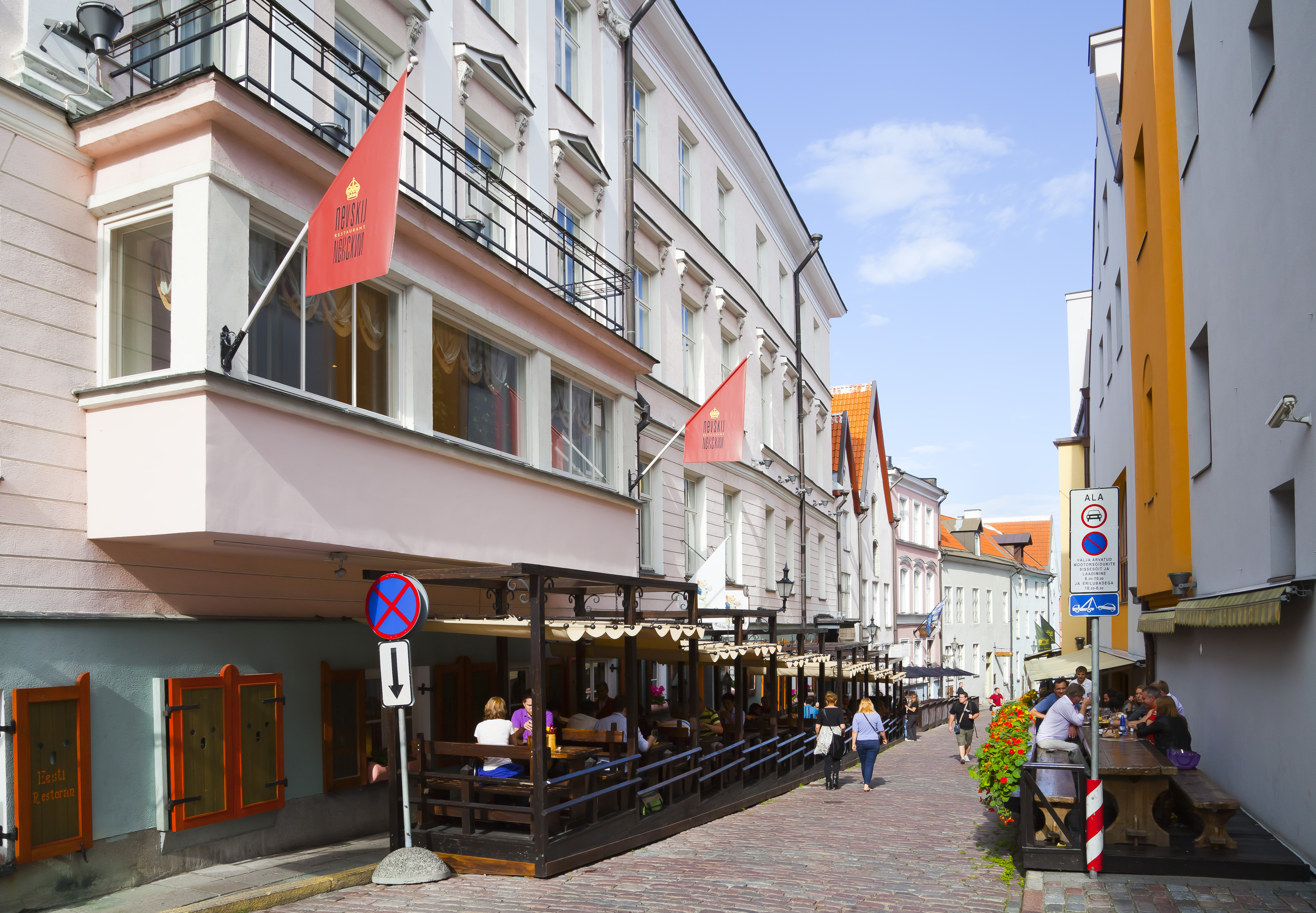 Dunkri Street, Tallinn, Estonia